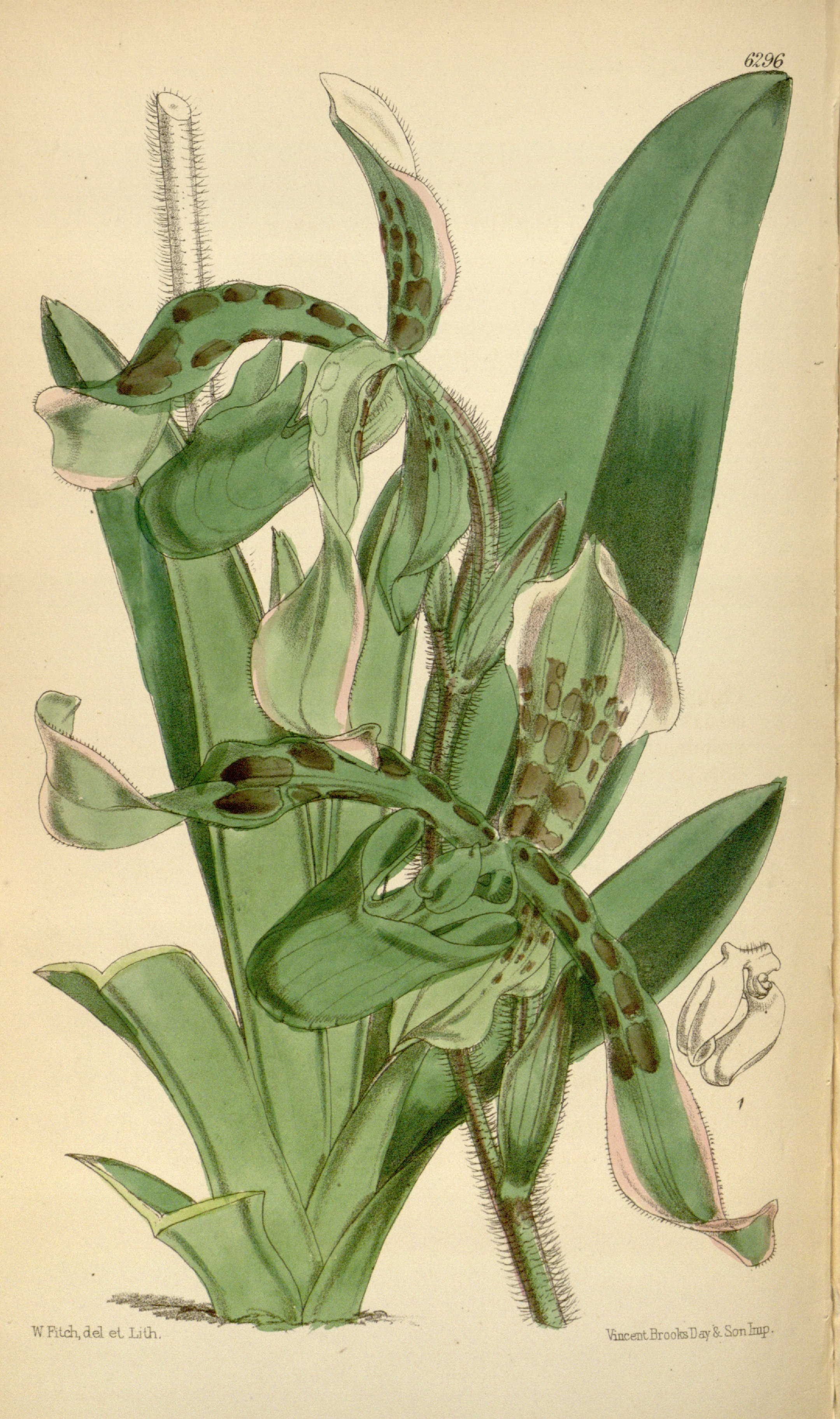 Illustration of Paphiopedilum haynaldianum (as syn. Cypripedium haynaldianum)